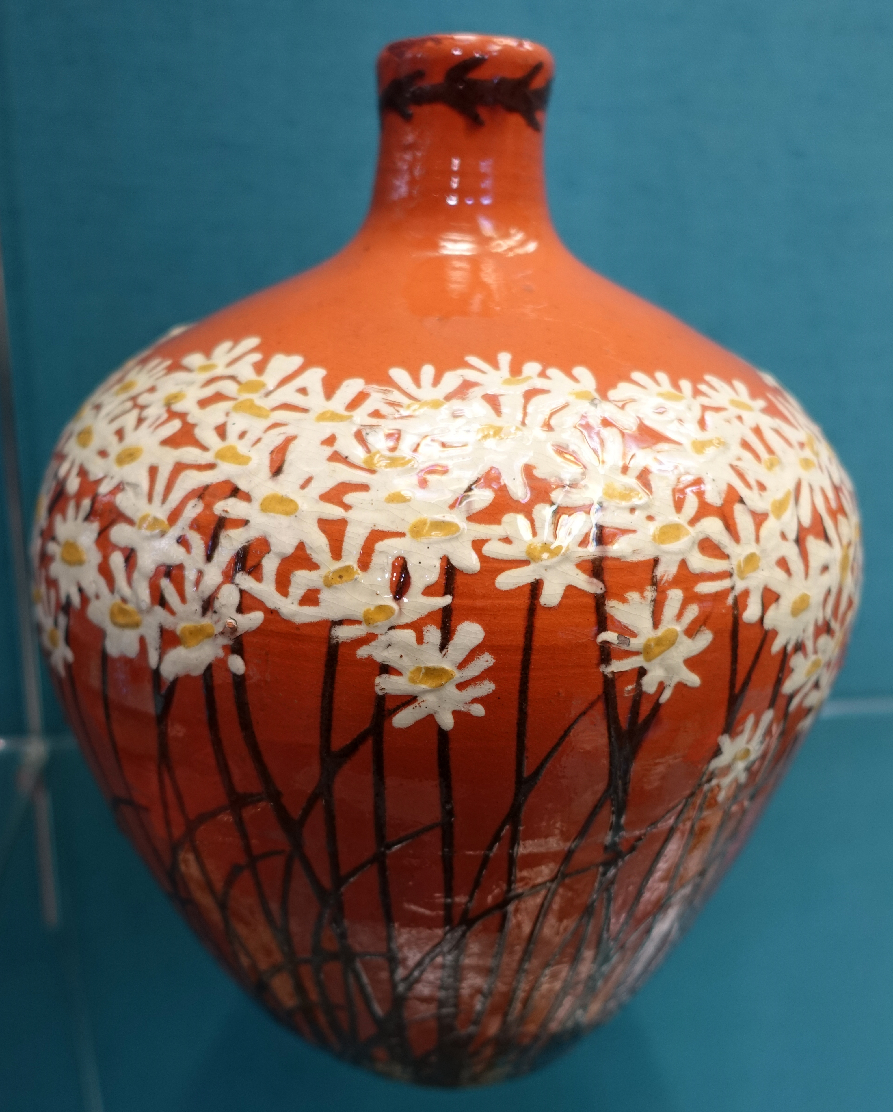 Exhibit in the Germanisches Nationalmuseum - Nuremberg, Germany.